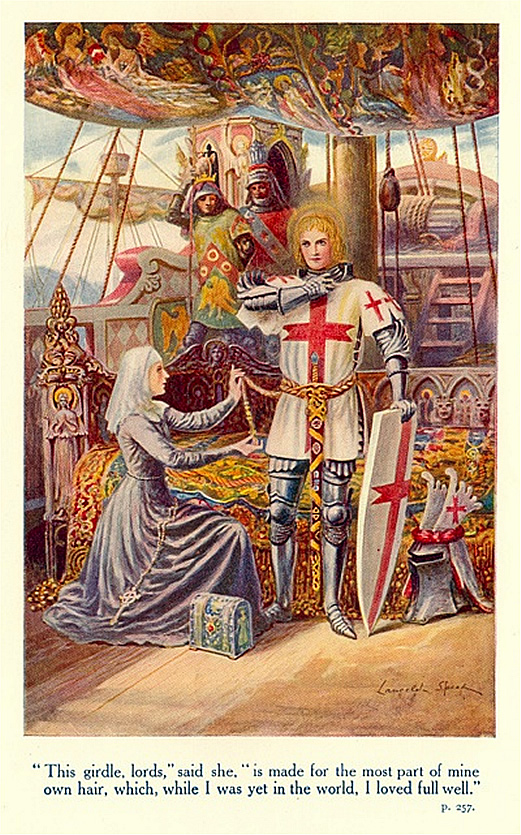 "This girdle, lords," said she, "is made for the most part of mine own hair, which, while I was yet in the world, I loved most well."